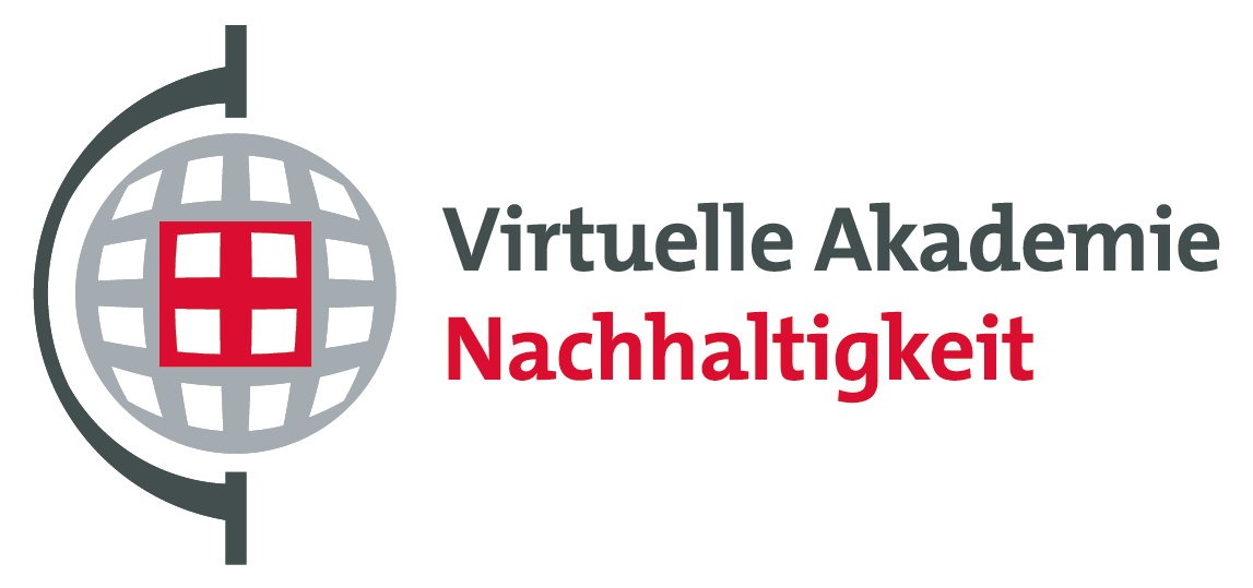 Logo of the Virtual Academy for Sustainability